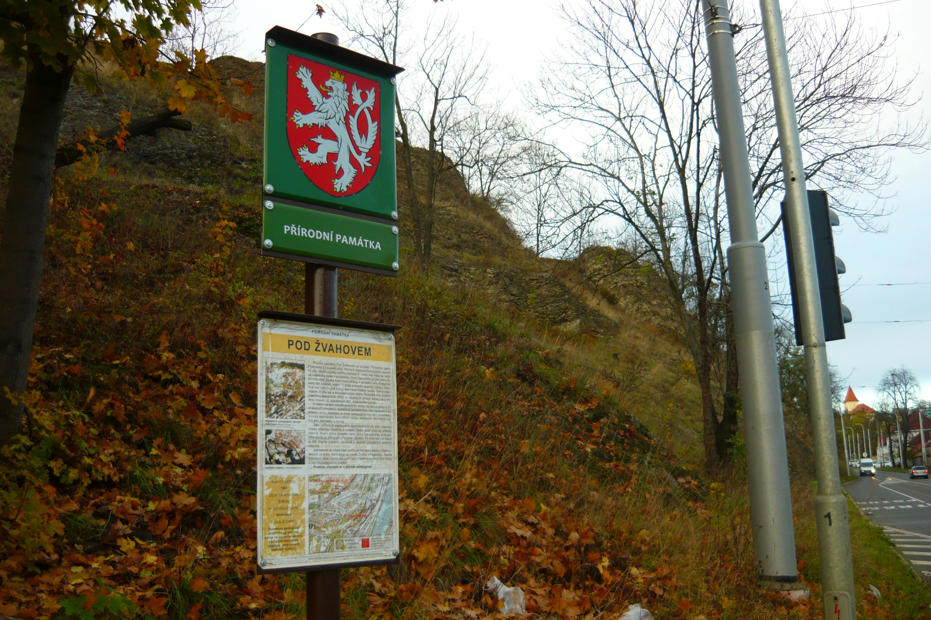 Pohled na východní svah chráněného území s informační tabulí PP Pod Žvahovem